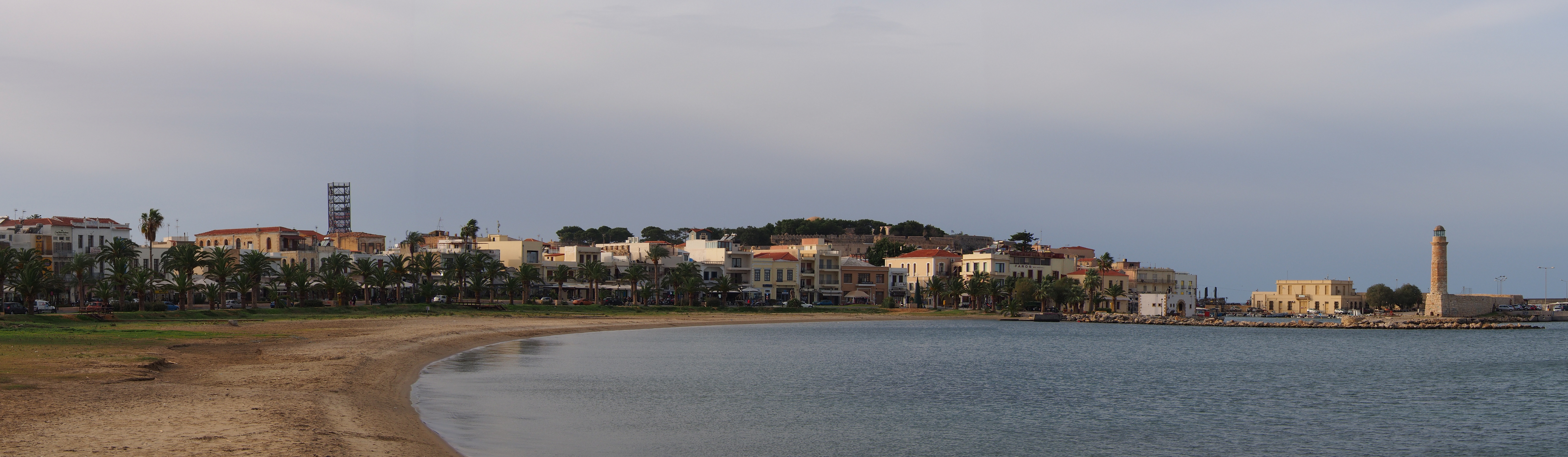 Panoramic view of Rethymno old town from the beach inside the harbour of Rethymno